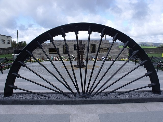 Auchengeich Memorial The full view with the old pithead wheel from the colliery which was nearby.